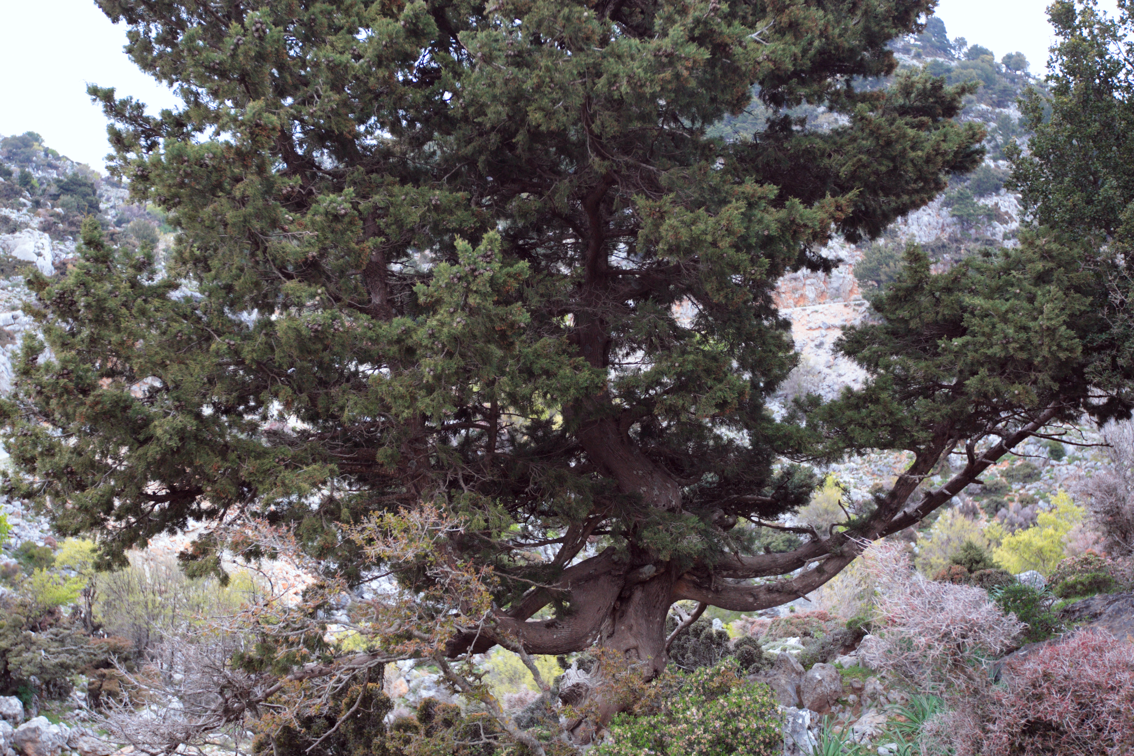 Cupressus sempervirens L., Omalos Plateau (Crete, Greece).